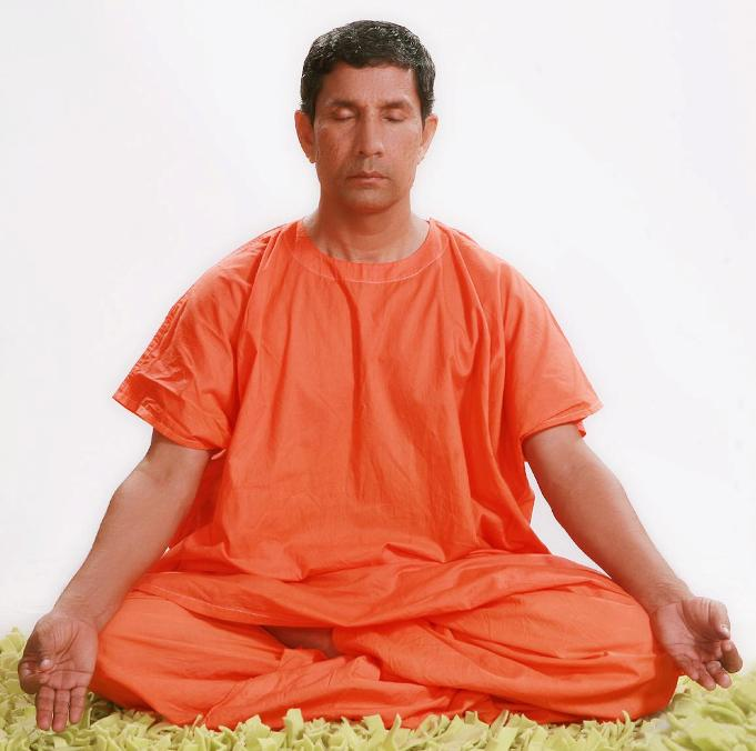 Yognisth Swami Karmveer ji Maharaj is the founder of “Maharishi Patanjali AntarRashtriya Yog Vidhya Peeth".